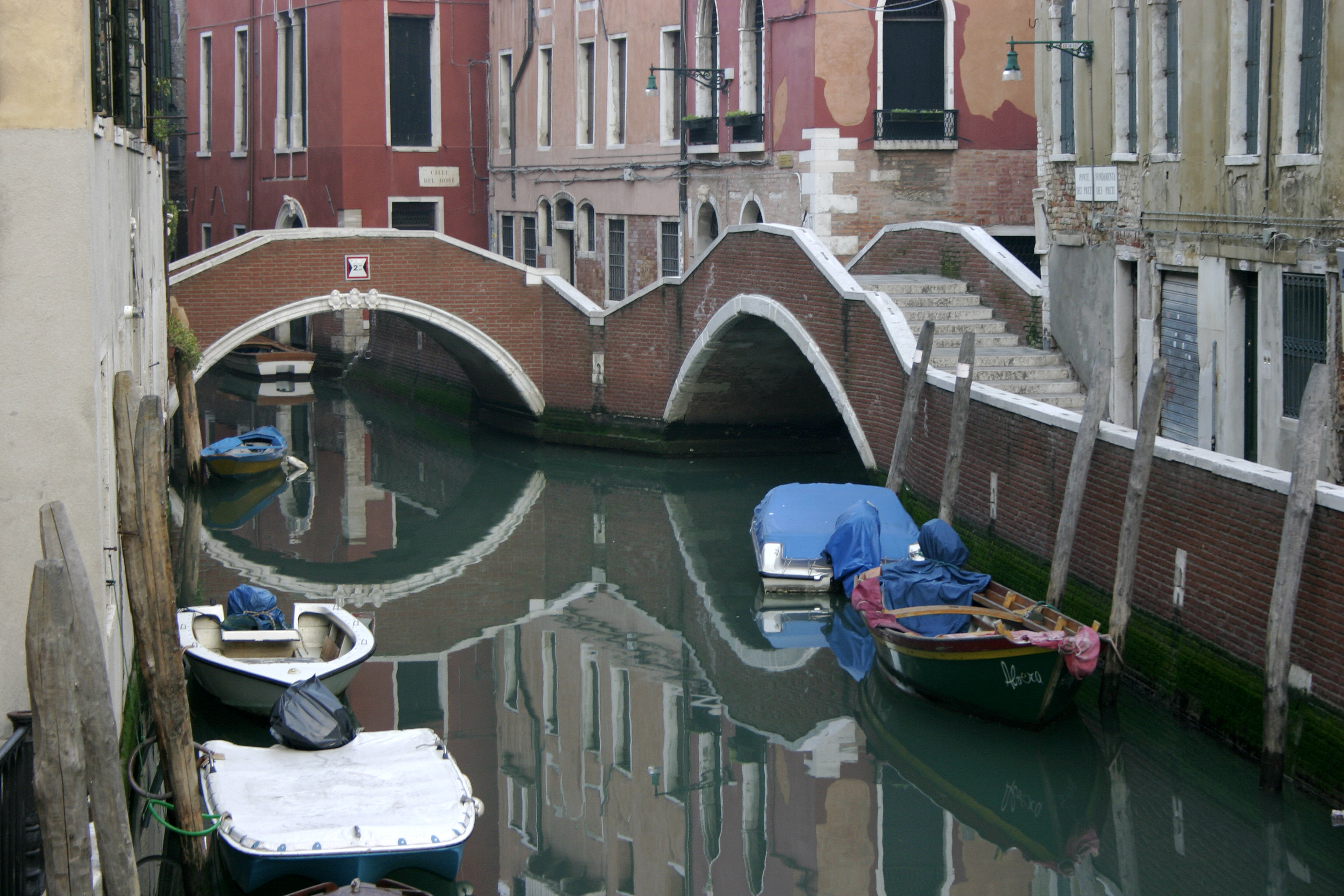 Venice – Ponte del Paradiso and Ponte dei preti